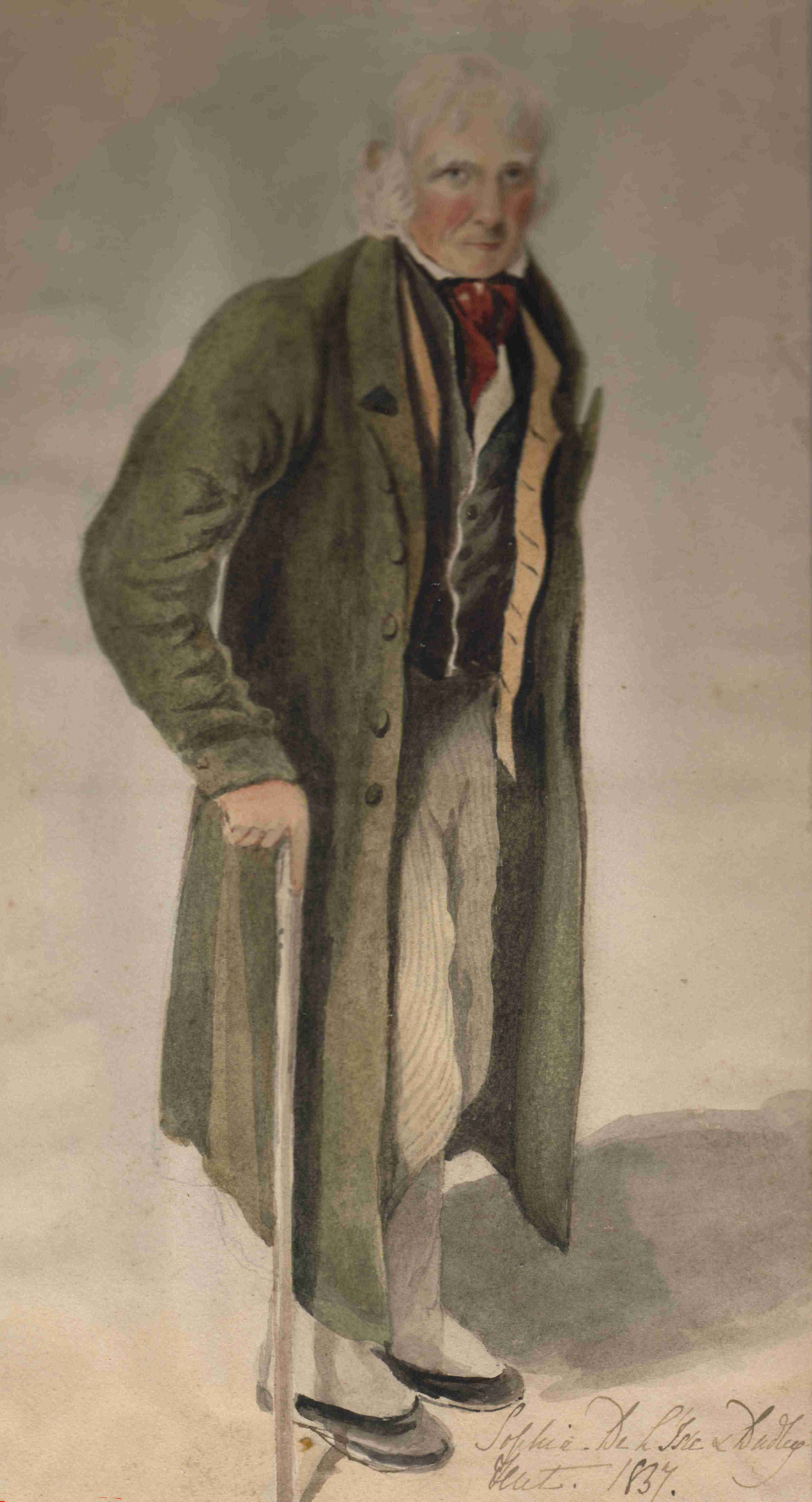 Watercolor painting of William IV of the United Kingdom, painted in 1837 by his illegitimate daughter Sophia de L'Isle and Dudley, shortly before her death.